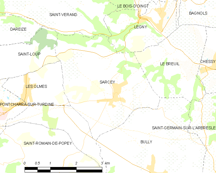 Map of French municipality